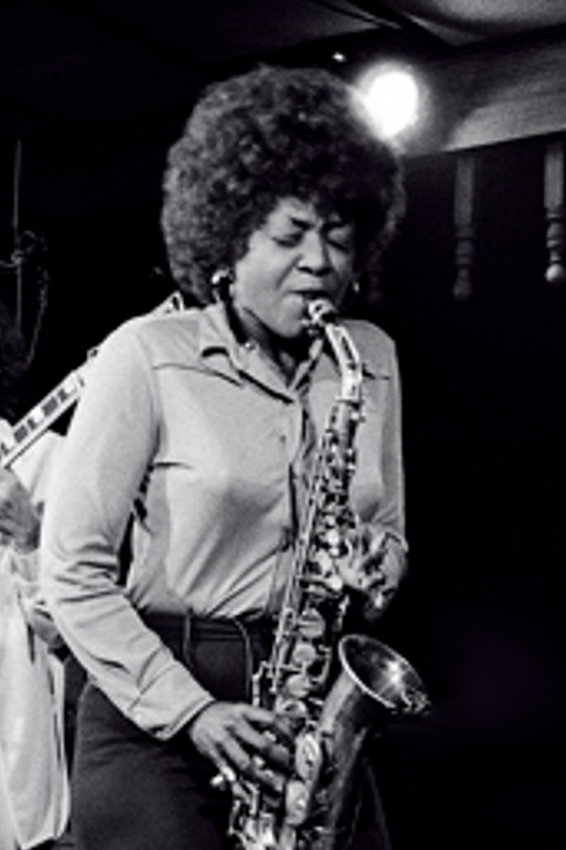 Jazz saxophonist Vi Redd in Rochester, NY, June 1977